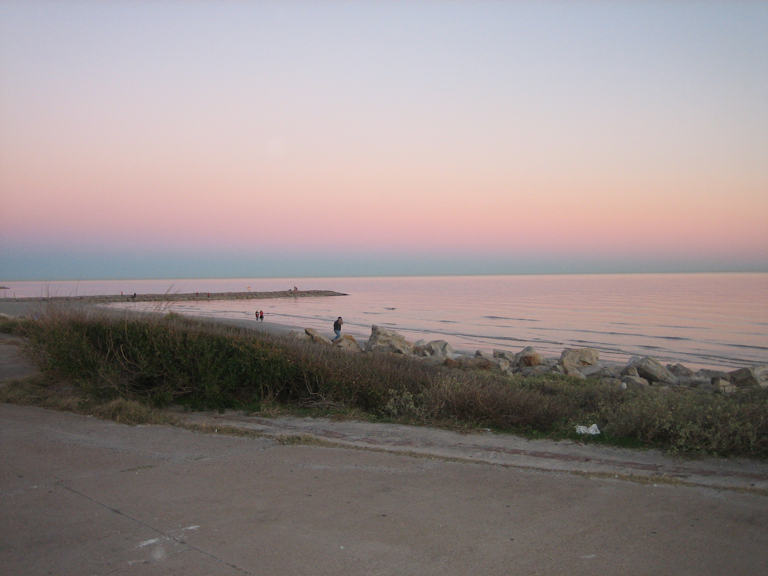 Galveston, Texas: beach at sunset The Earth's shadow is visible as a dark band over the horizon; the pink band above it is known as the Belt of Venus. [1] Oscar Boleman